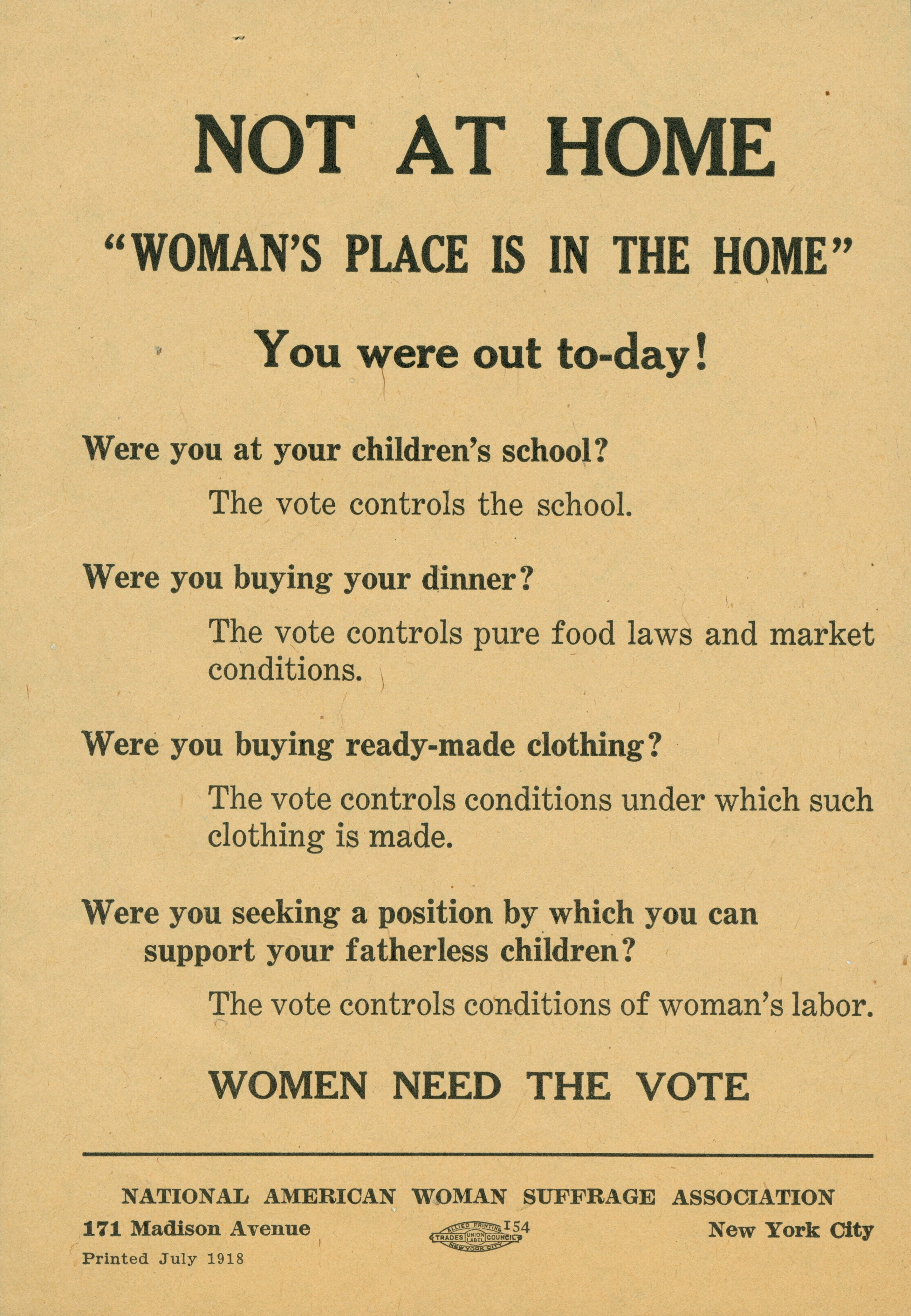 Argues that women need the vote.Title: Flier: "Not at Home. 'Woman's Place is in the Home.' You were out today!" printed by the National American Woman Suffrage Association, New York, July 1918